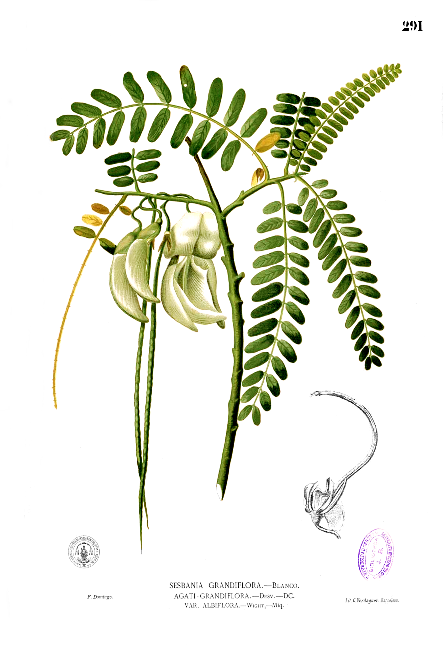 Plate from book